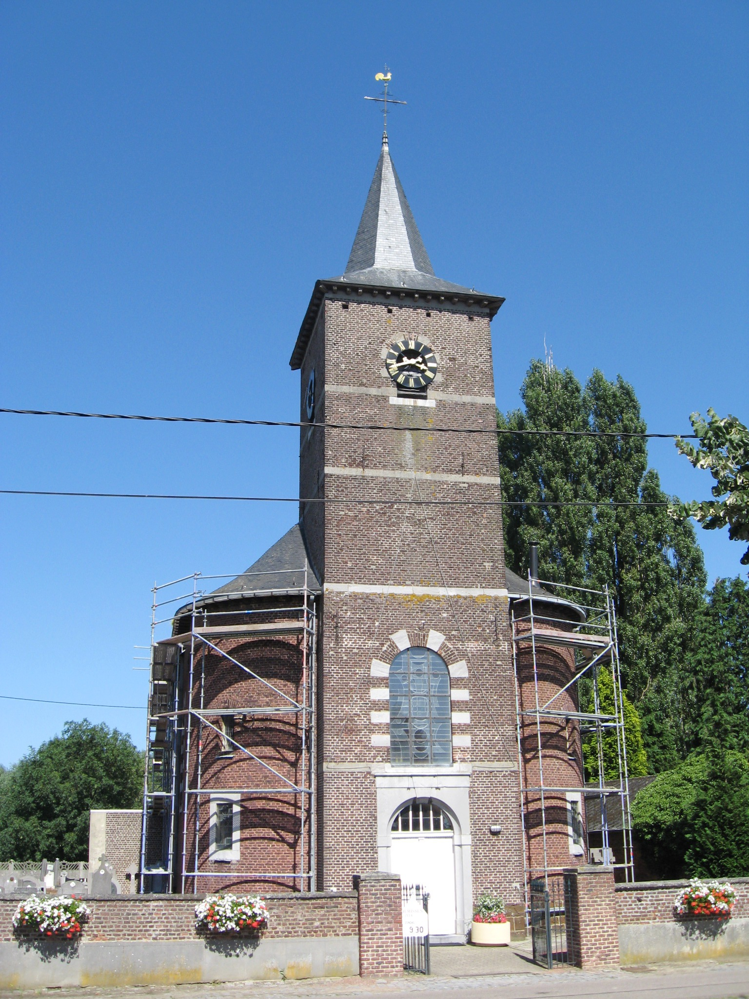 Church of Saint Pancras in Halen (Zelk), Limburg, Belgium